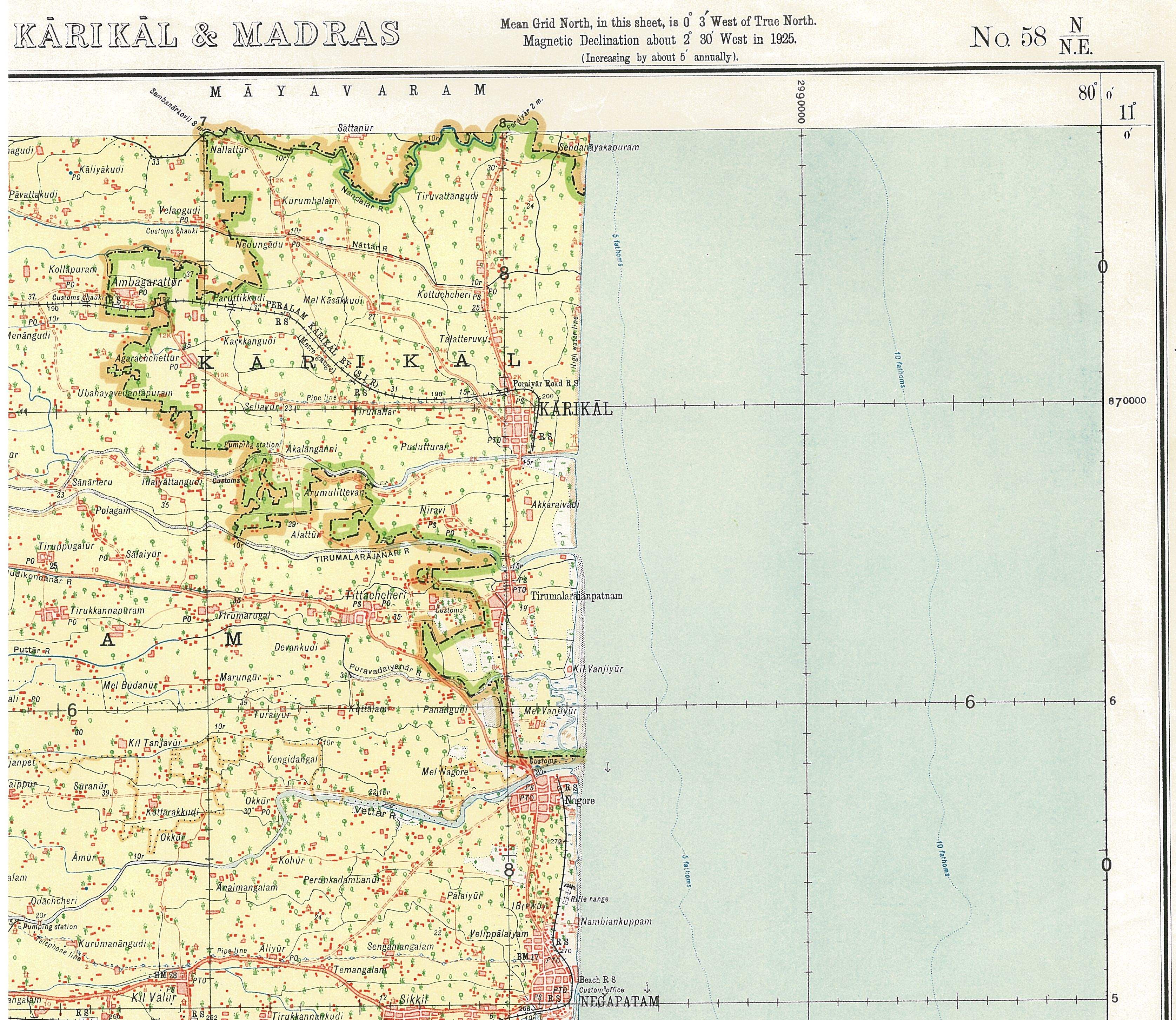 1920s Survey of India 1:126,720 map of Karikal. Sheet 58N/NE.